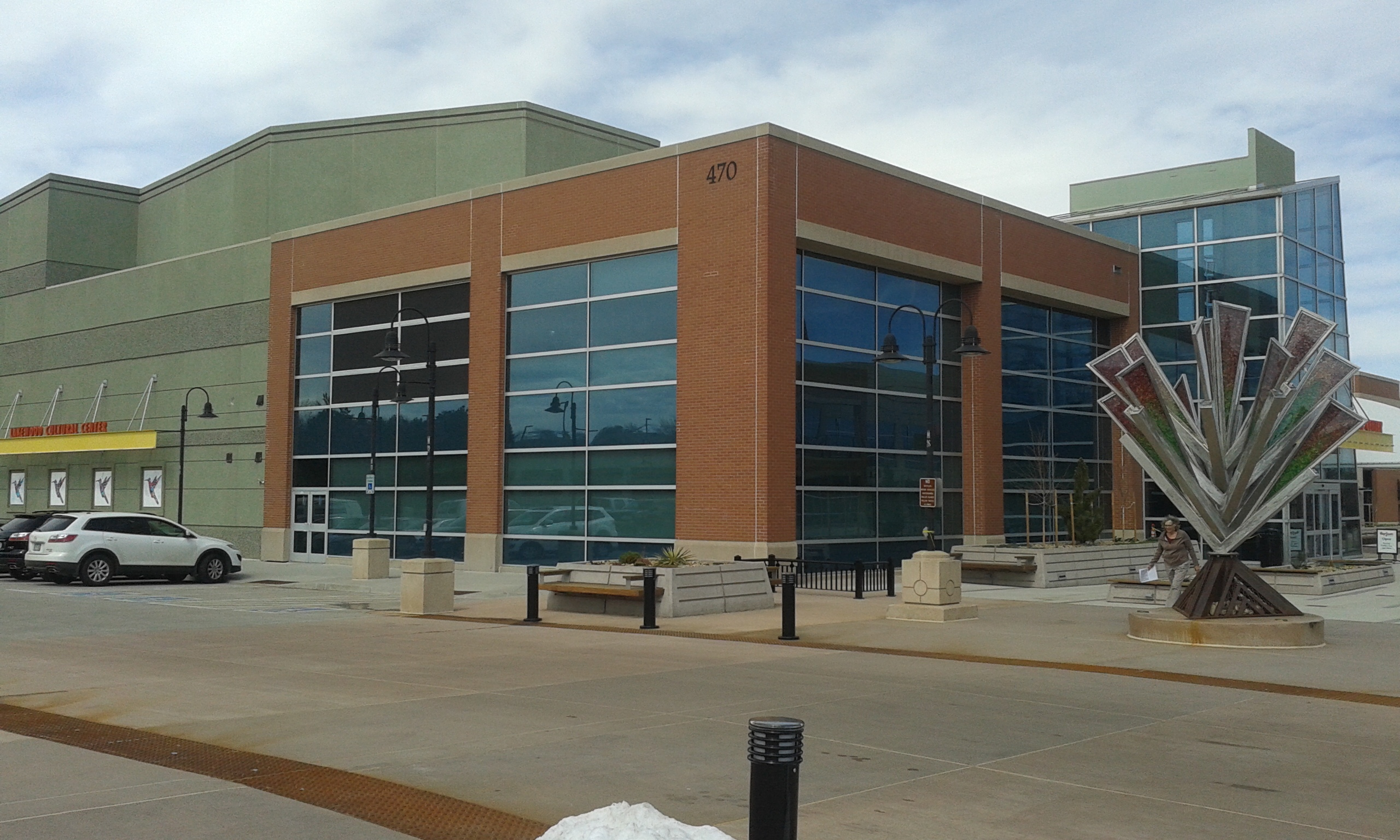 Lakewood Cultural Center, south corner, from top of parking garage